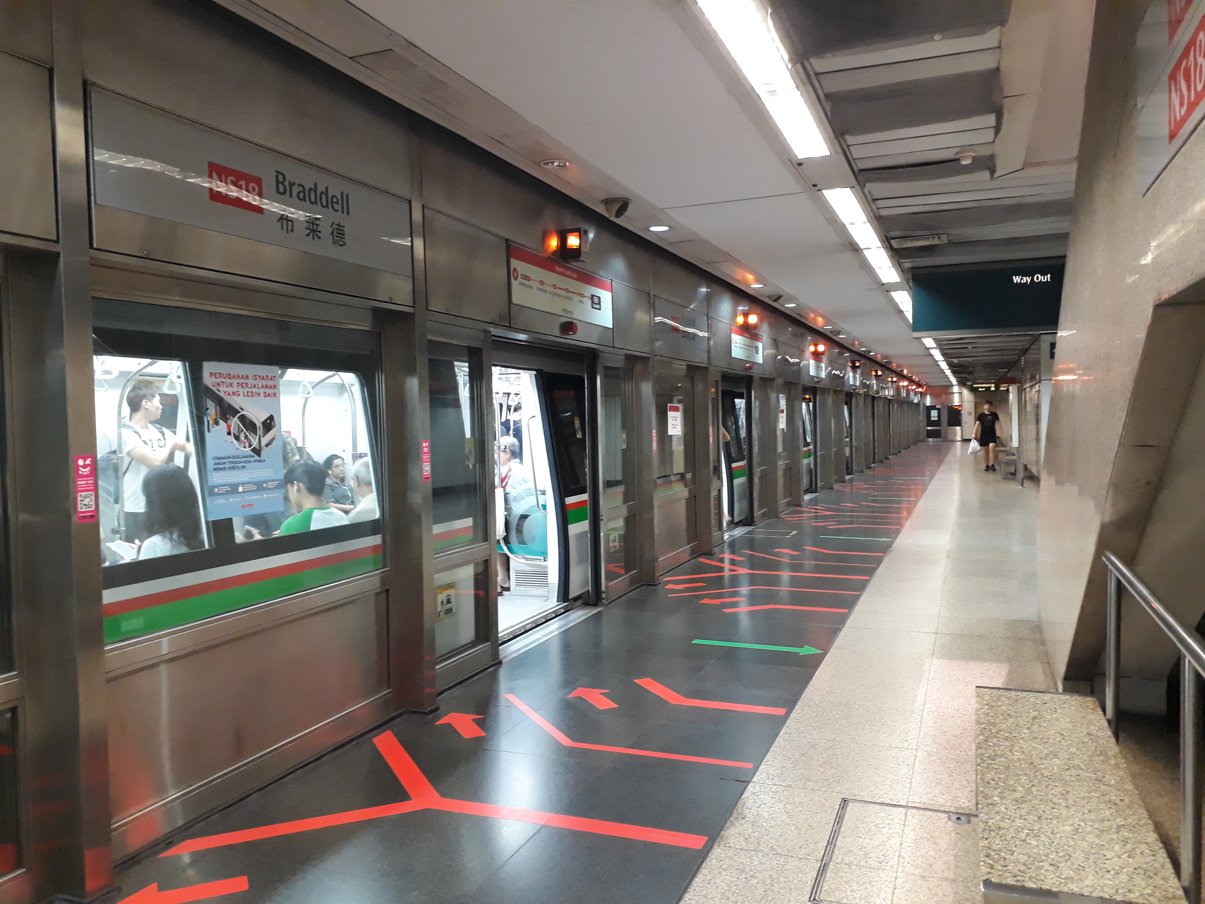 Platform A of Braddell MRT